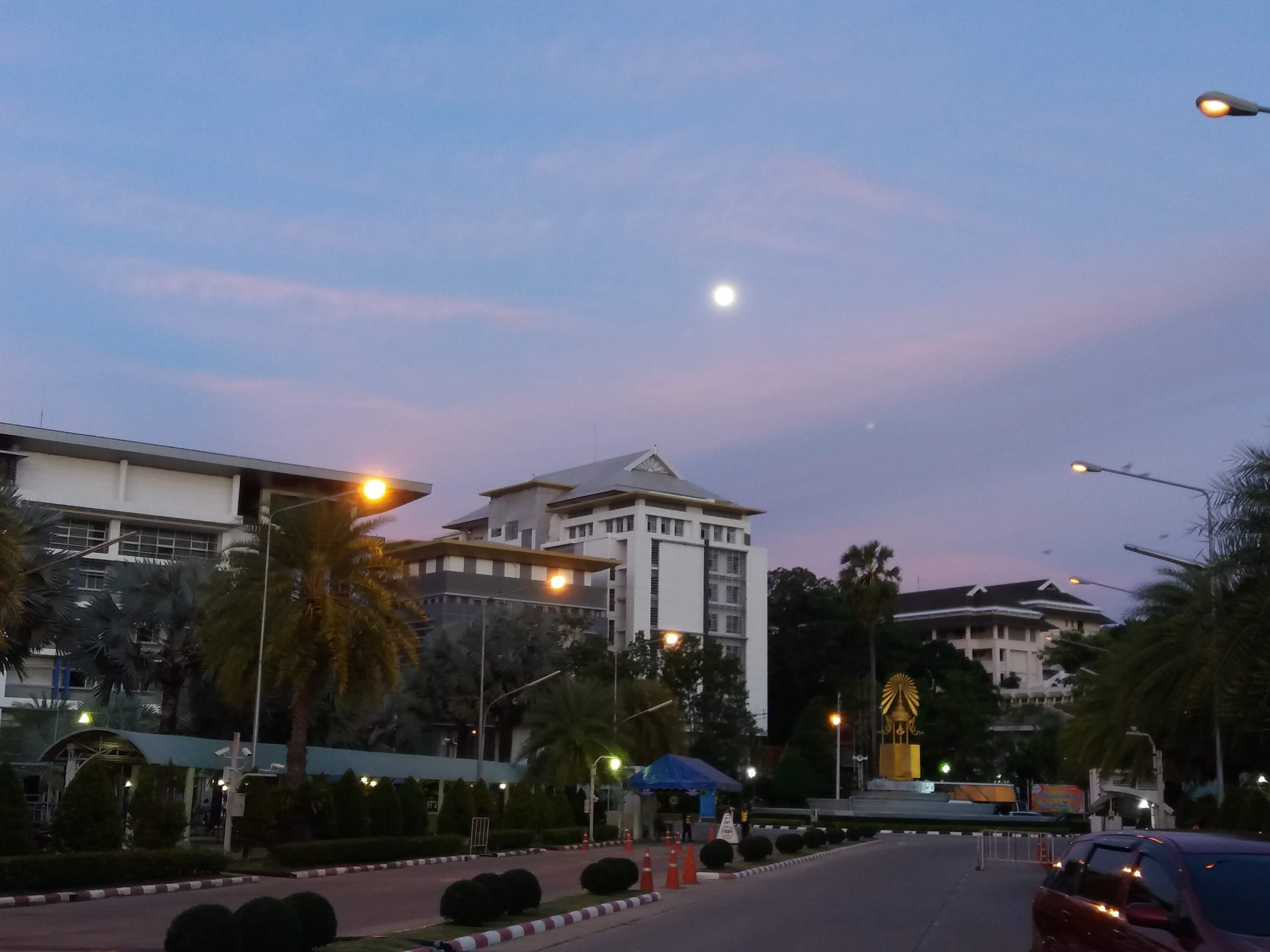 The view from the main gate of Thaksin University's Songkhla campus.